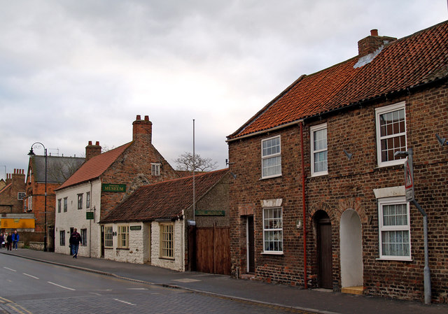 Hornsea Museum, Hornsea, East Riding of Yorkshire, England.Hornsea Museum is situated on Newbegin.